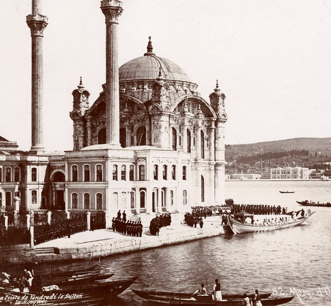 Photograph of the selamlik (ceremony of the Ottoman Sultan's Friday prayer), in the Ottoman Capital of Istanbul (Constantinople). A rare occasion for his citizens and visiting westerners to catch a glimpse of the secluded Monarch and Khalife. From this capital he ruled over an extensive, though slowly shrinking and discontented, empire in Asia that included Syria (Aleppo, Damascus, Mont-Liban, Palestine, Jordan), Mesopotamia, The Hejaz, Yemen, and officially Egypt, and north Africa. "He (Sultan Abdülaziz), went by Imperial Kayik (boat) to the Ortaköy camii (mosque) on the Bosphorus, built by Nikolos (of the Armenian architectural dynasty of the Balians) in 1853-4 on the Bosphorus. The oars worked in perfect unison, dipping and rising as one single pair. Along the banks of the Bosphorus bands played, troops presented arms, and people made low reverences. The Sultan, the city and the sea united to celebrate God and the empire" CONSTANTINOPLE, Philip Mansel 1995.